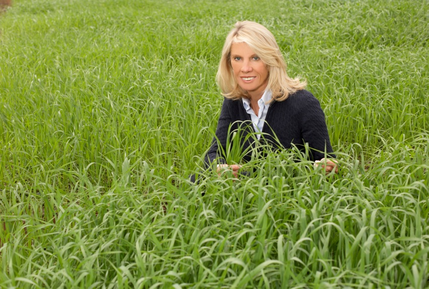 Lady Bamford wheat field